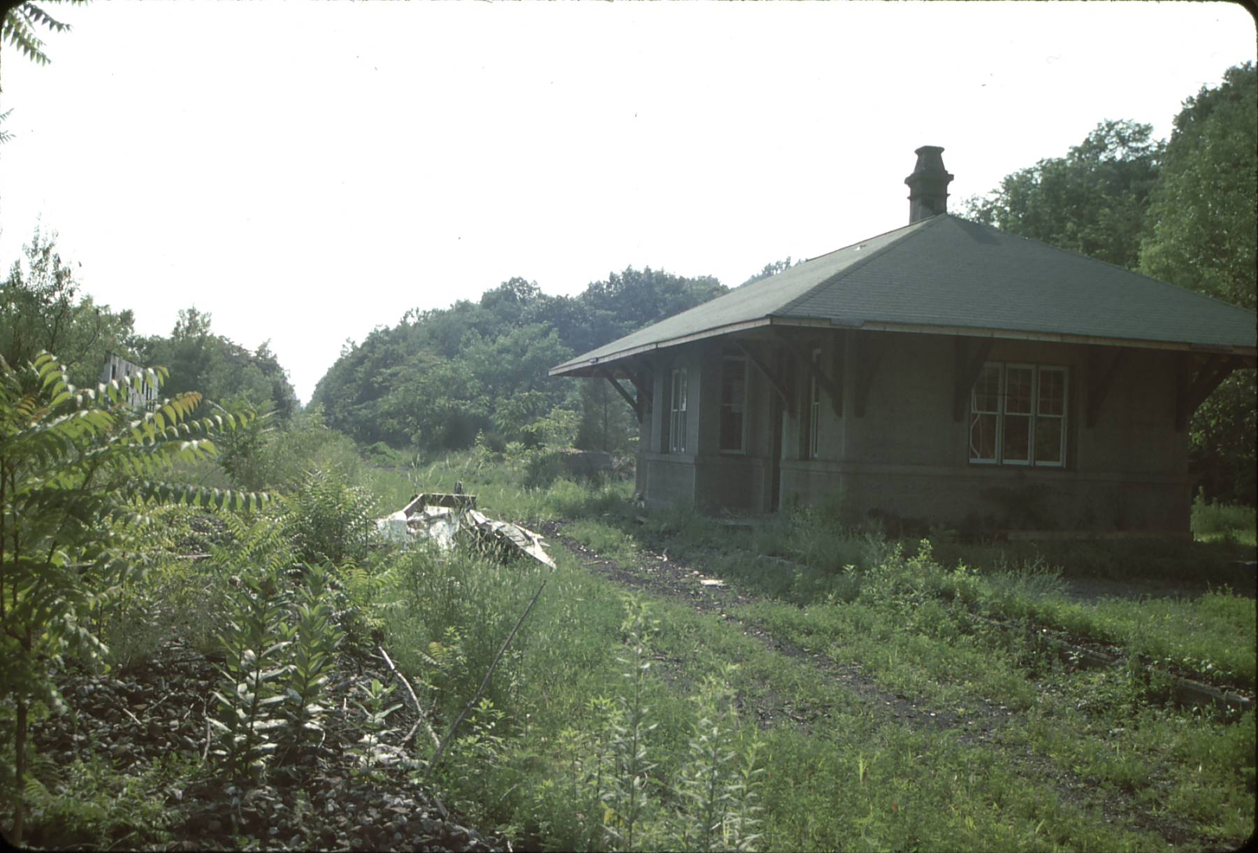 A digital scan of a Kodachrome slide of Johnsonburg Station on the Lackawanna Cut-Off.